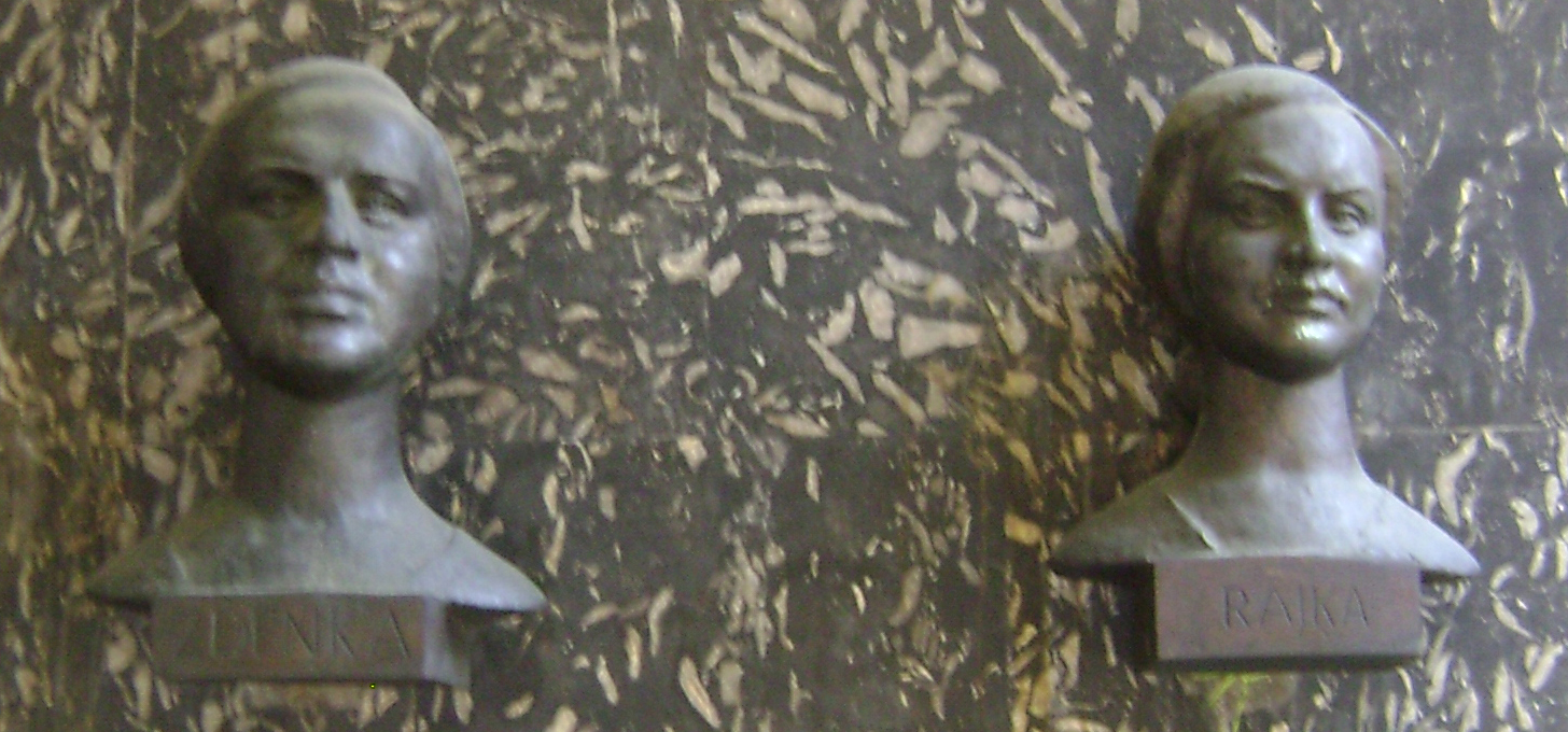 Bust of Zdenka i Rajka Baković